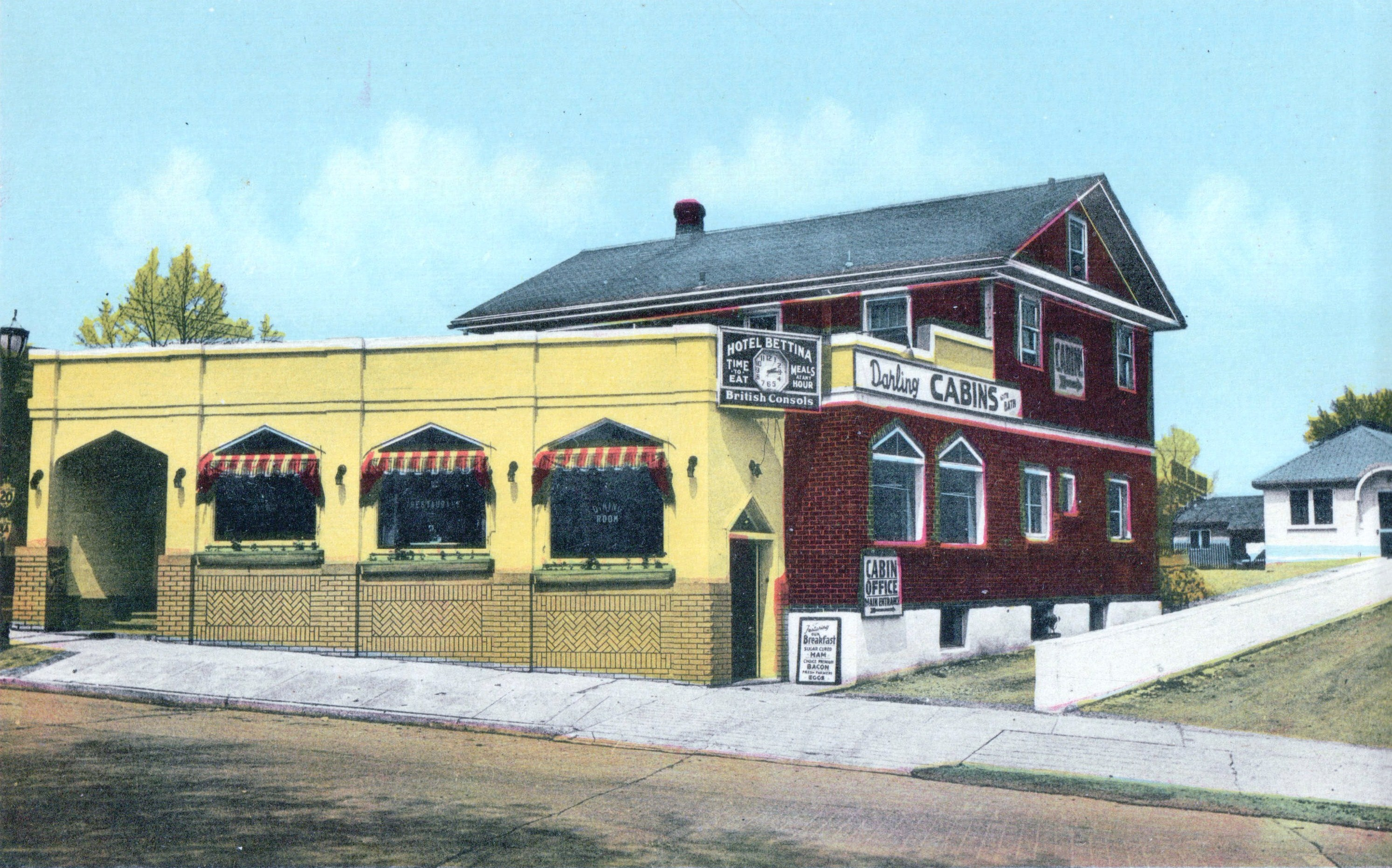 Cropped image from a postcard for Darling Cabins and Hotel Bettina, Clifton Hill, Niagara Falls.